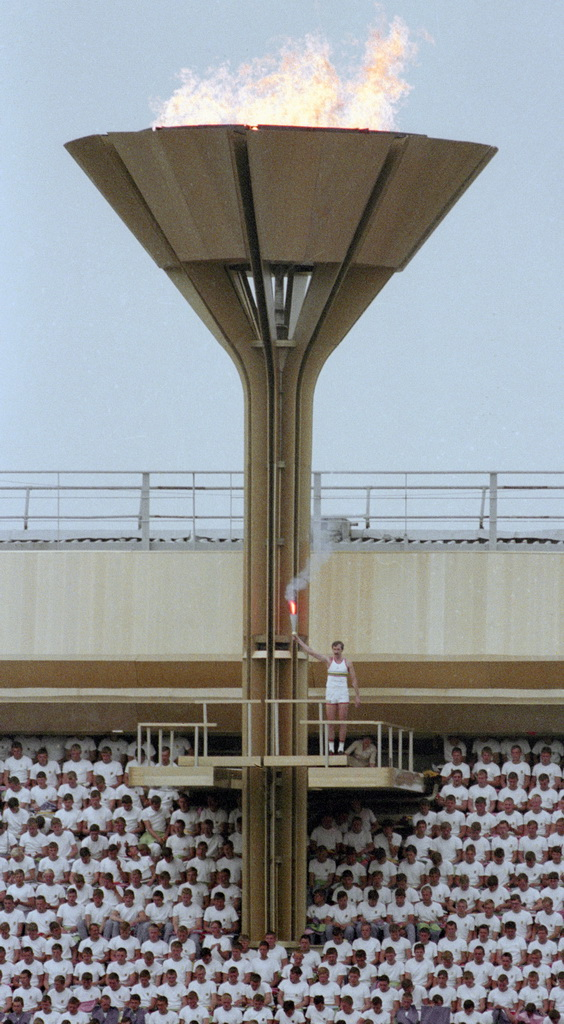 “22nd Olympics opening gala”. Soviet basketball player Sergei Belov lighting the Olympic fire during the 22nd Olympics opening gala in Moscow, 1980.